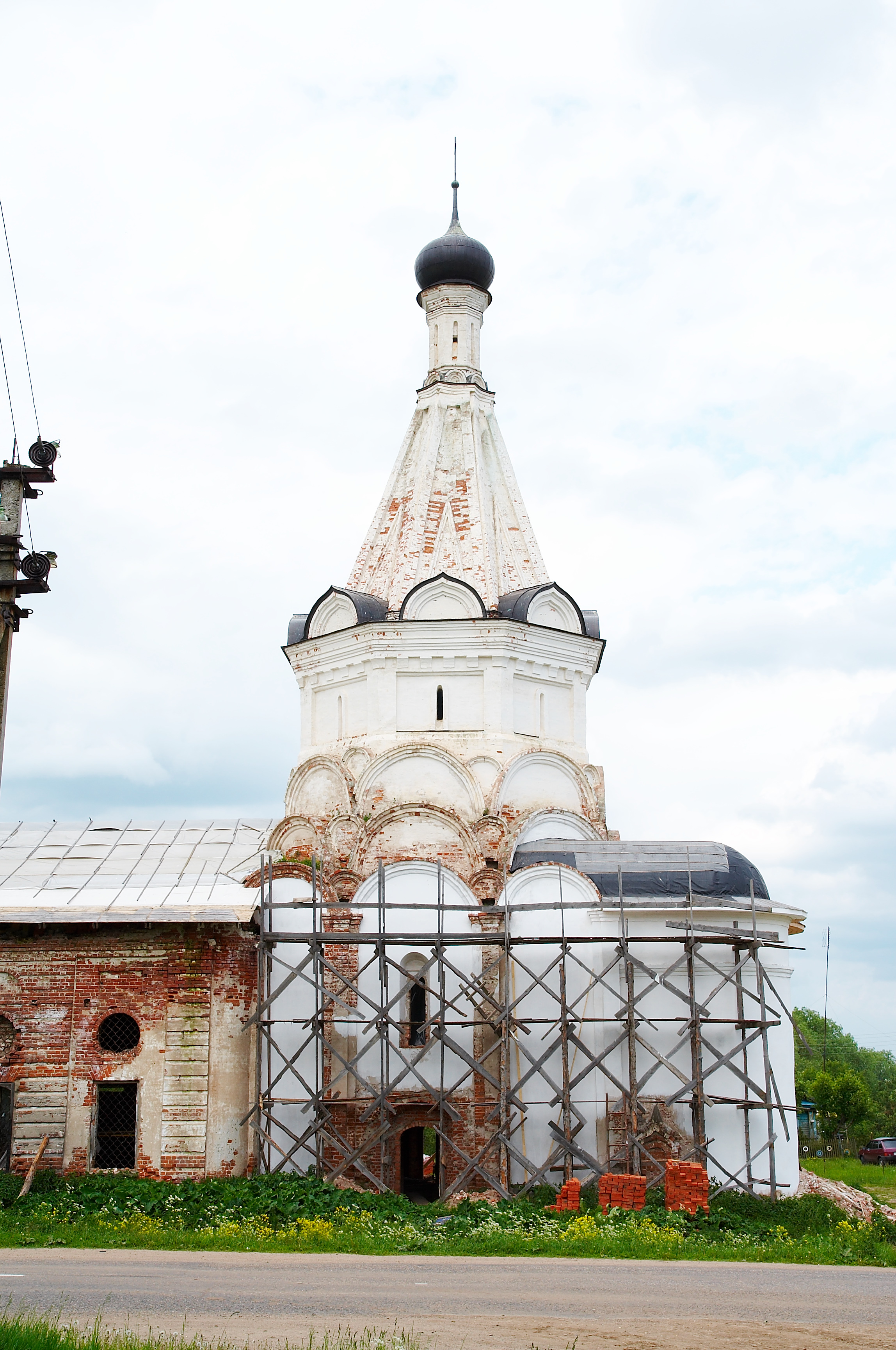 Nikita church, Elizarovo village, Pereslavl district, Yaroslavl province, Russia